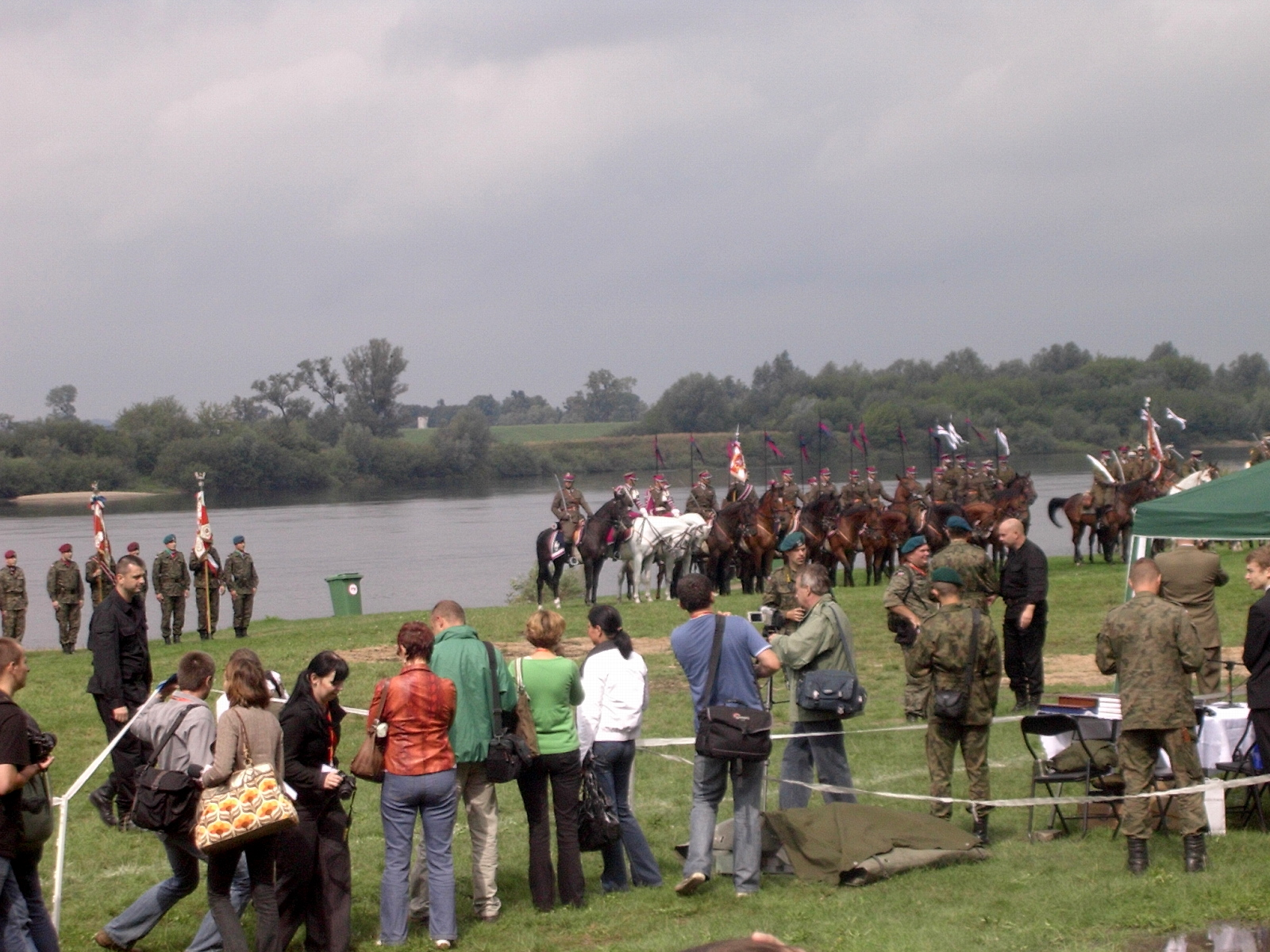 Historical event in Grudziądz.